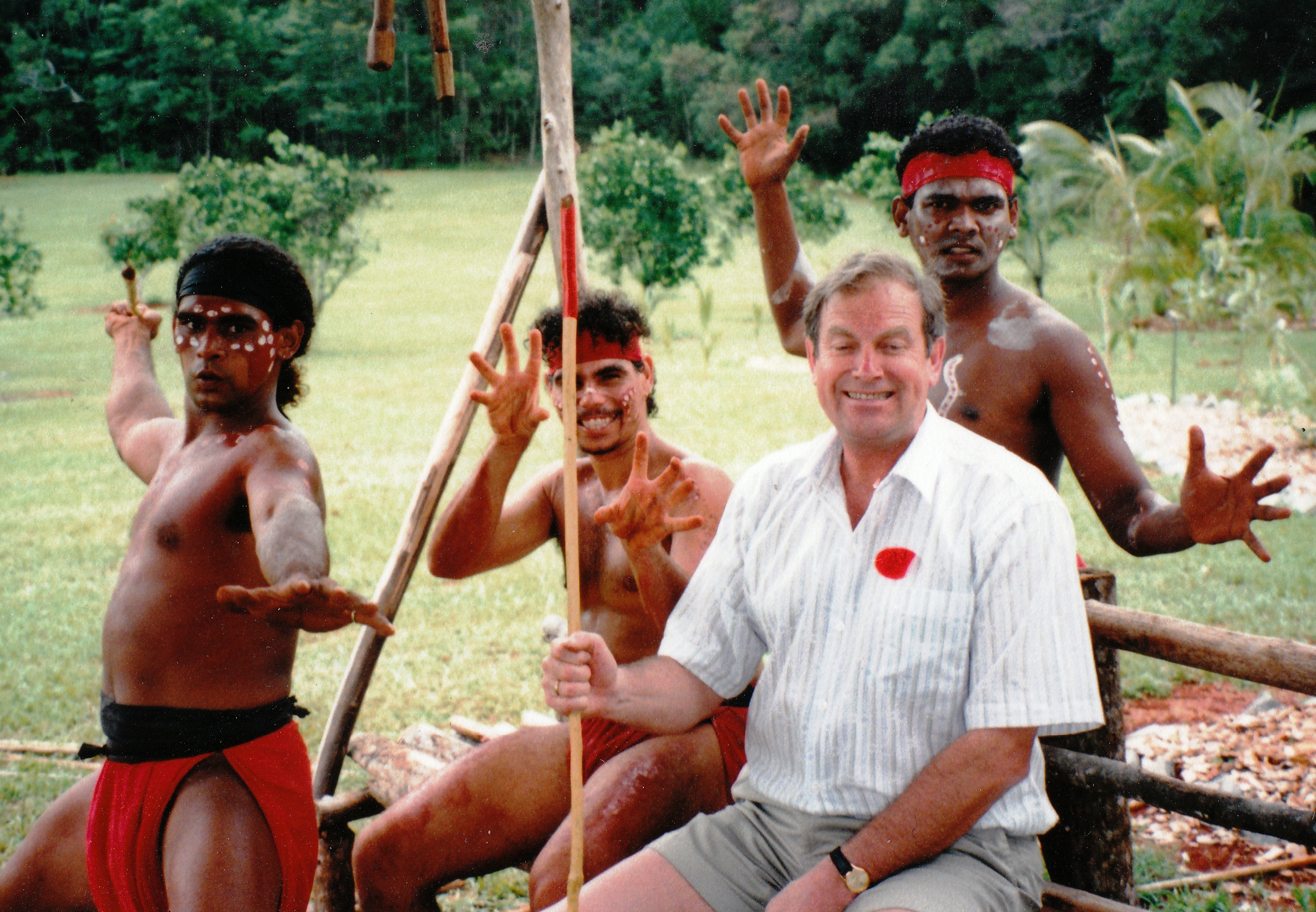 Tiit Made, Estonian economist and politician, visiting Australia.